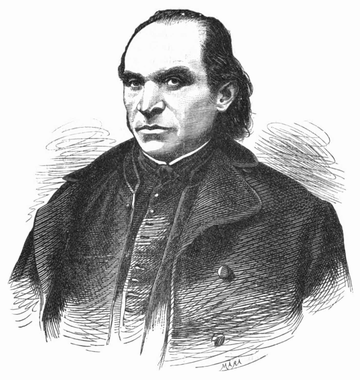 Andrej Sládkovič (1820-1872), Slovak poet, critic, publicist and translator